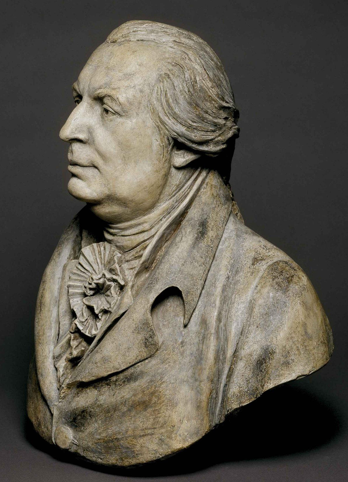 Terracotta bust of Gouverneur Morris, from a life mask taken June 6 1792, by sculptor Jean-Antoine Houdon in Paris